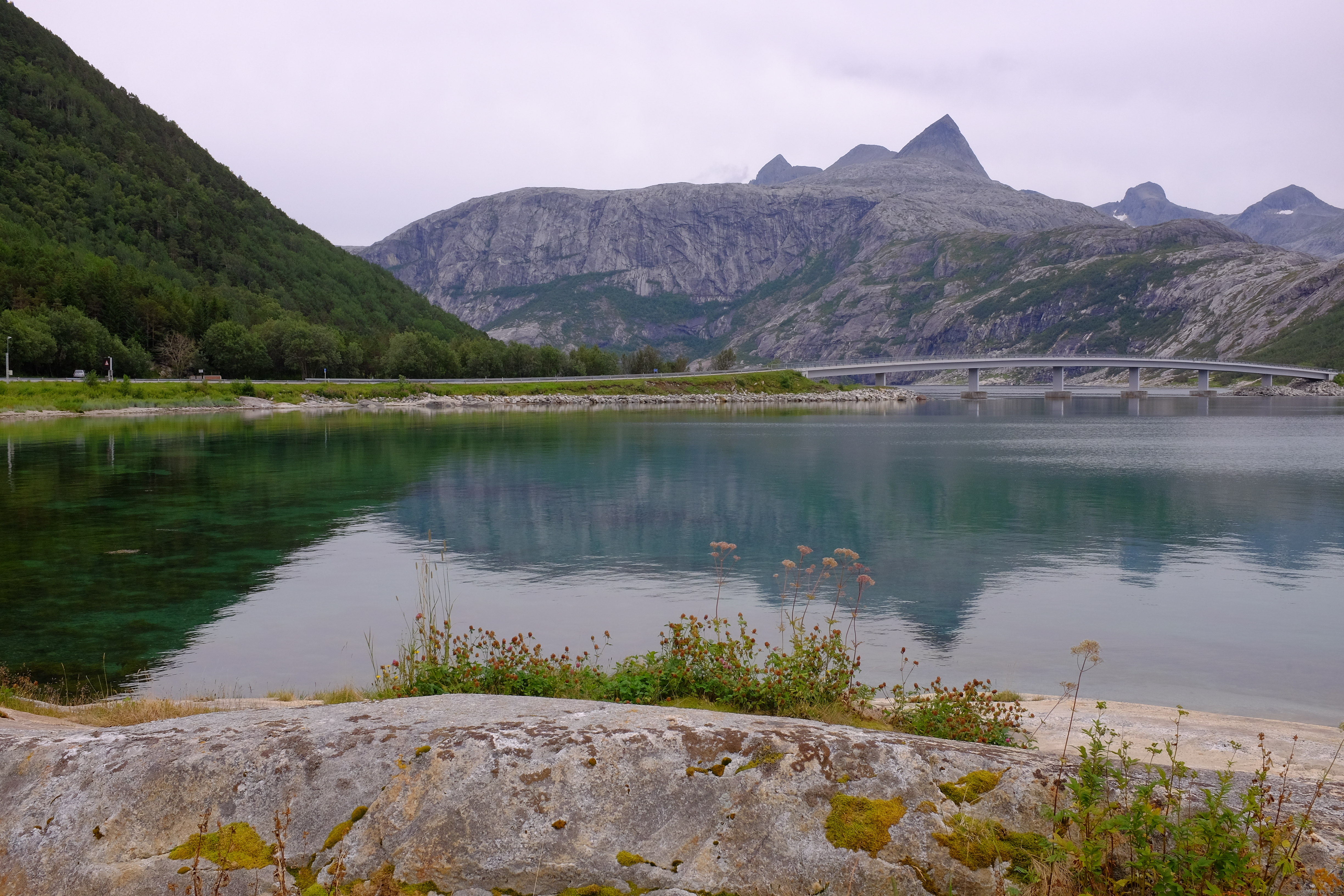 Bridge over Åselistraumen stram with Børvasstindan peaks in the background, Bodø, Nordland, Norway.